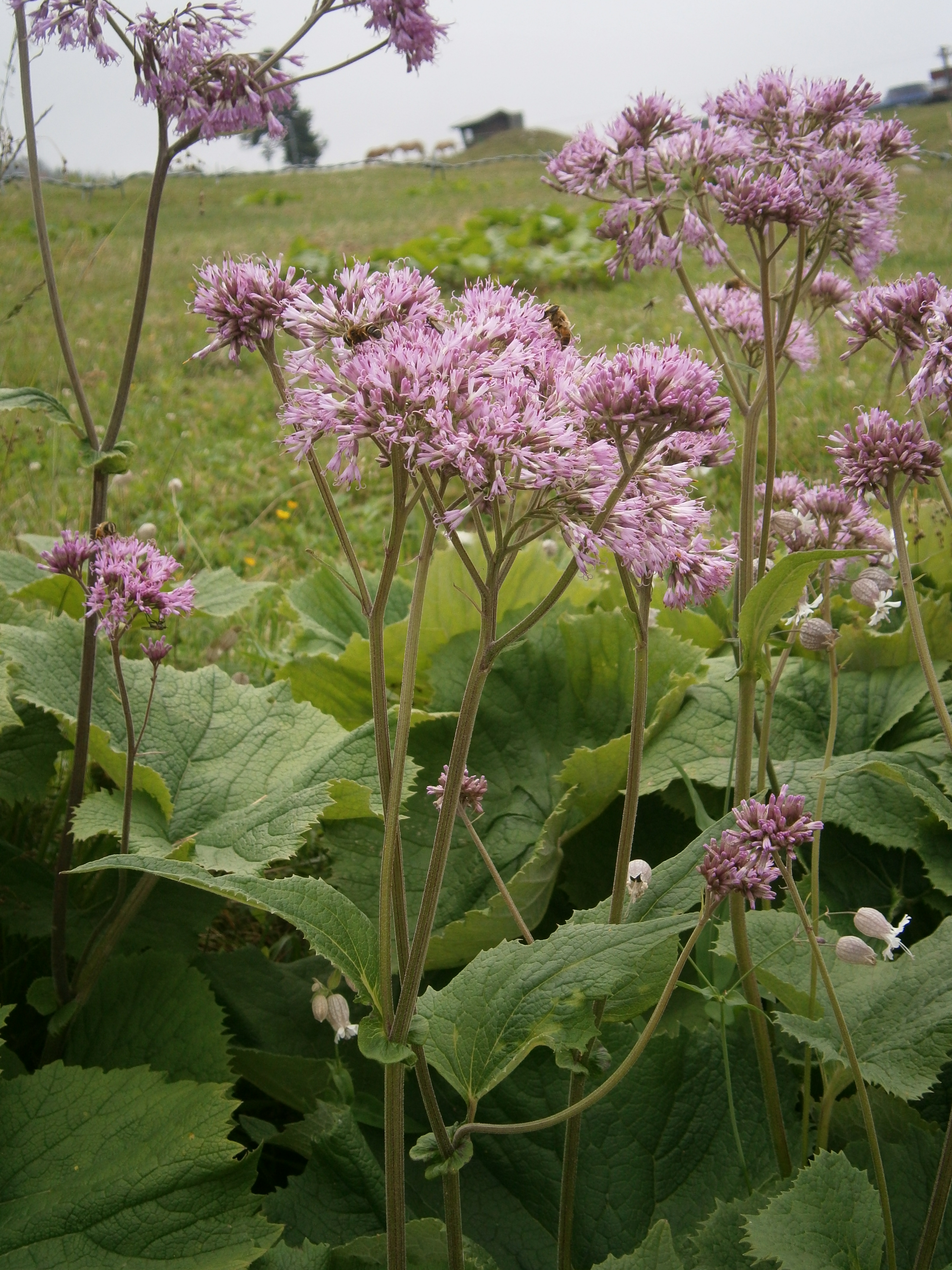 Adenostyles alliariae